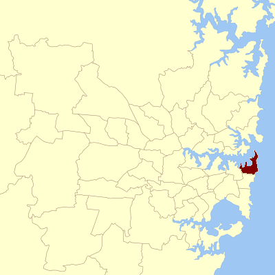 Location of the New South Wales Legislative Assembly electoral district within Sydney in New South Wales. Reference: [1]